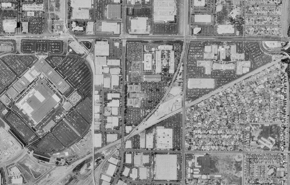 Los Angeles Air Force Base — in El Segundo, Los Angeles County, California.